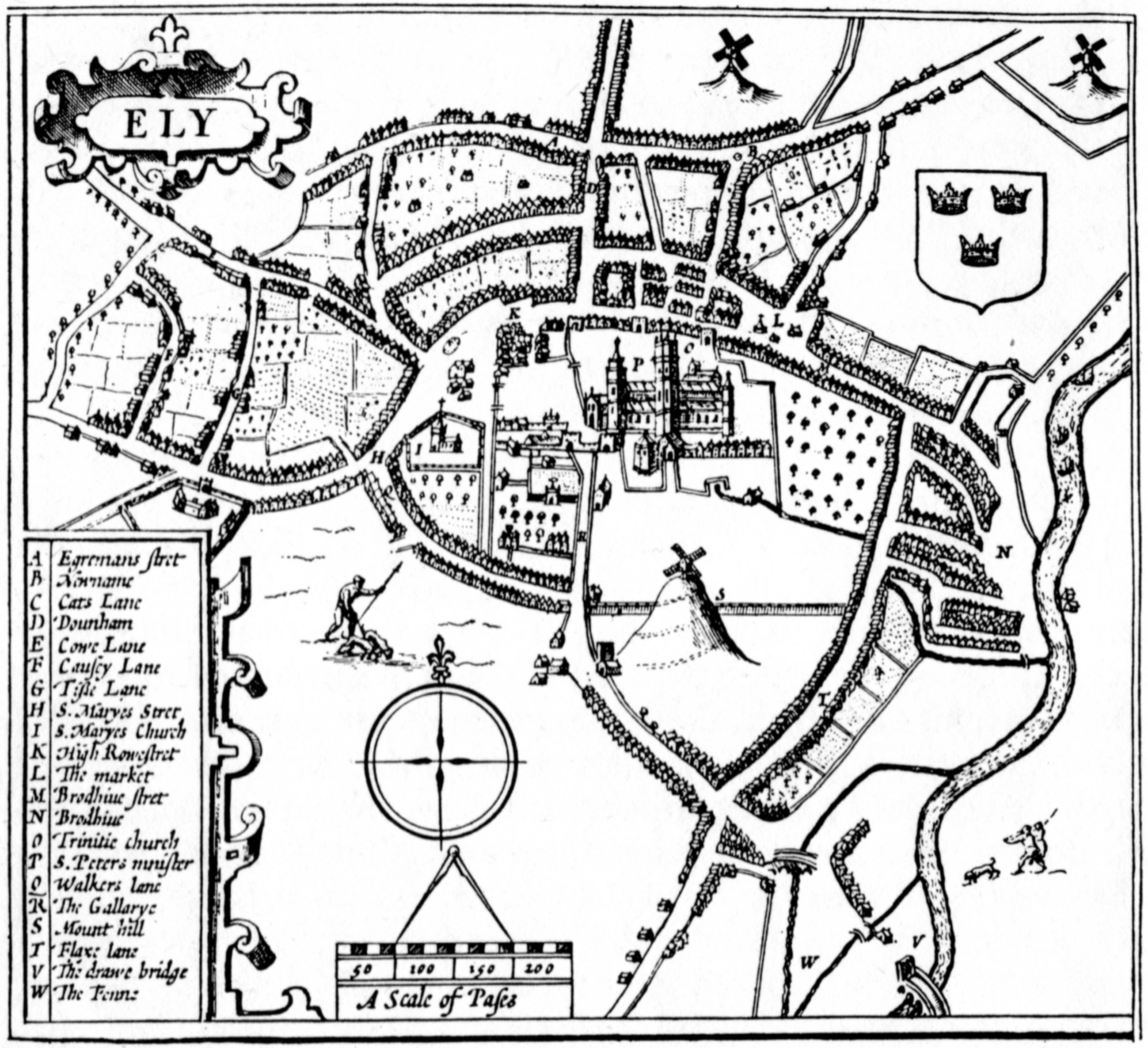 A plan of Ely from Dorman (1986) The story of Ely p. 54 which is originally from the top right hand corner of John Speed's 1610 map of Huntingdonshire